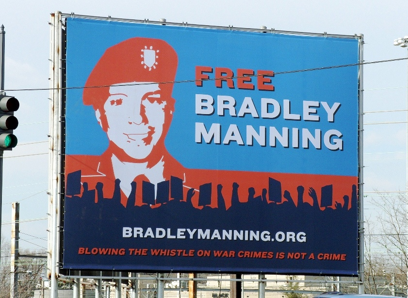 Supporters of PFC Bradley Manning have erected a billboard in Washington, DC as the accused WikiLeaks whistle-blower awaits an announcement about the military's plans for his trial at nearby Fort Meade, Maryland. The billboard, which reads, "Free Bradley Manning: Blowing the whistle on war crimes is not a crime" is located on the route to downtown Washington from Fort Meade.